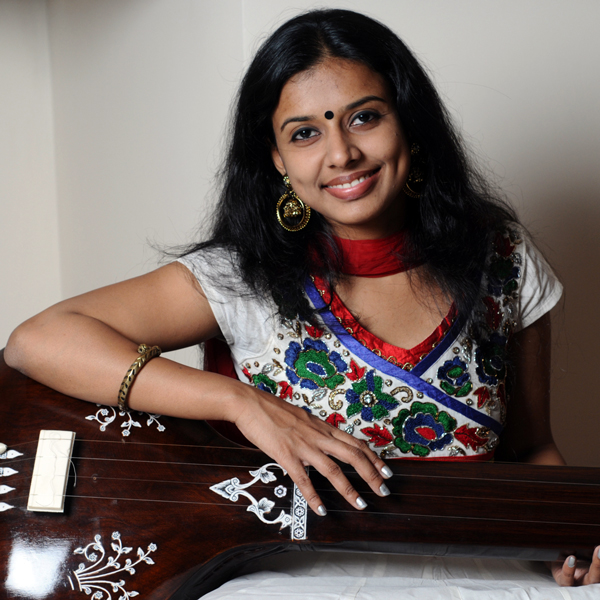 Sithara Krishnakumar holding Thamburu